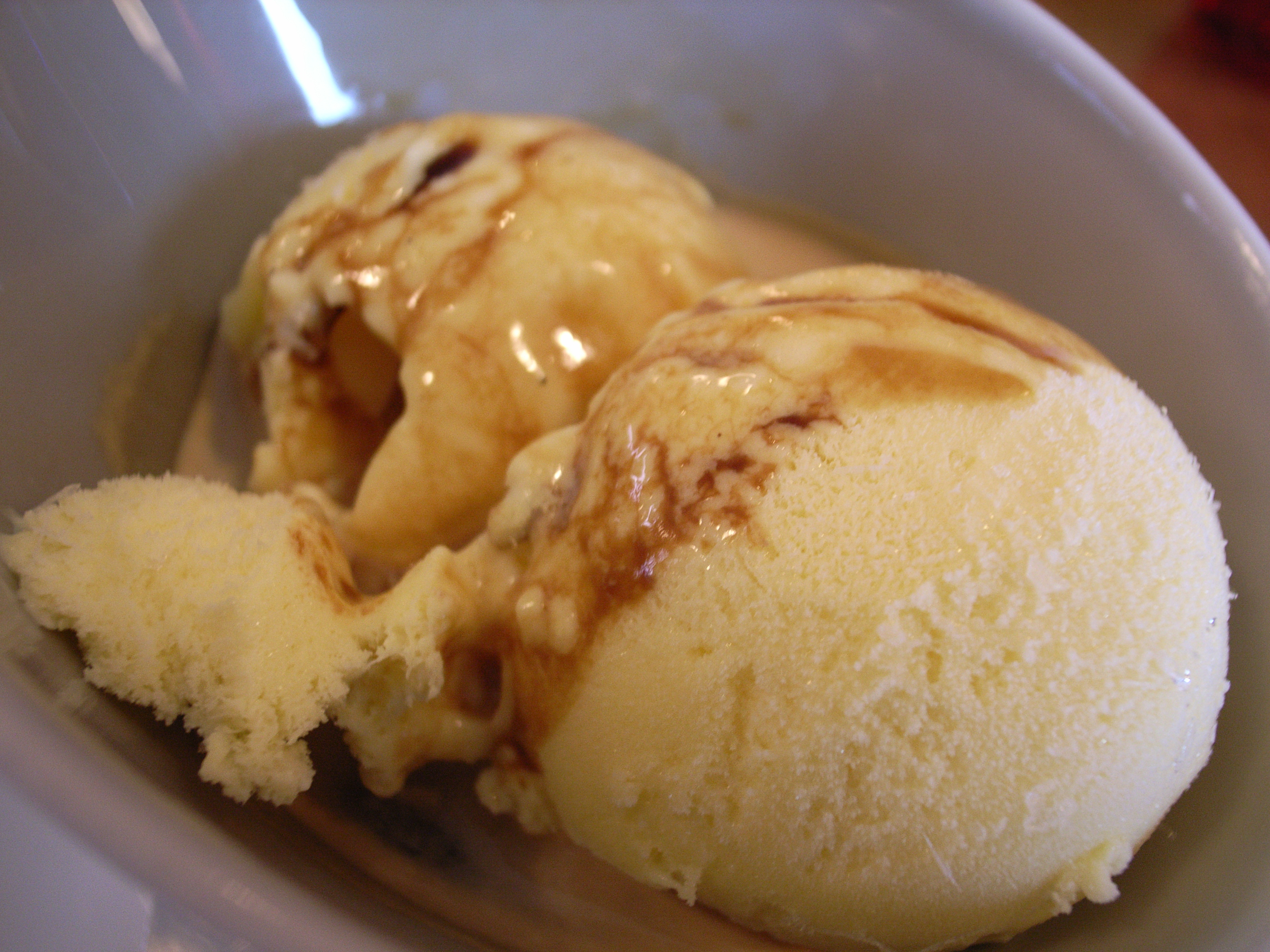 Coffee gelato